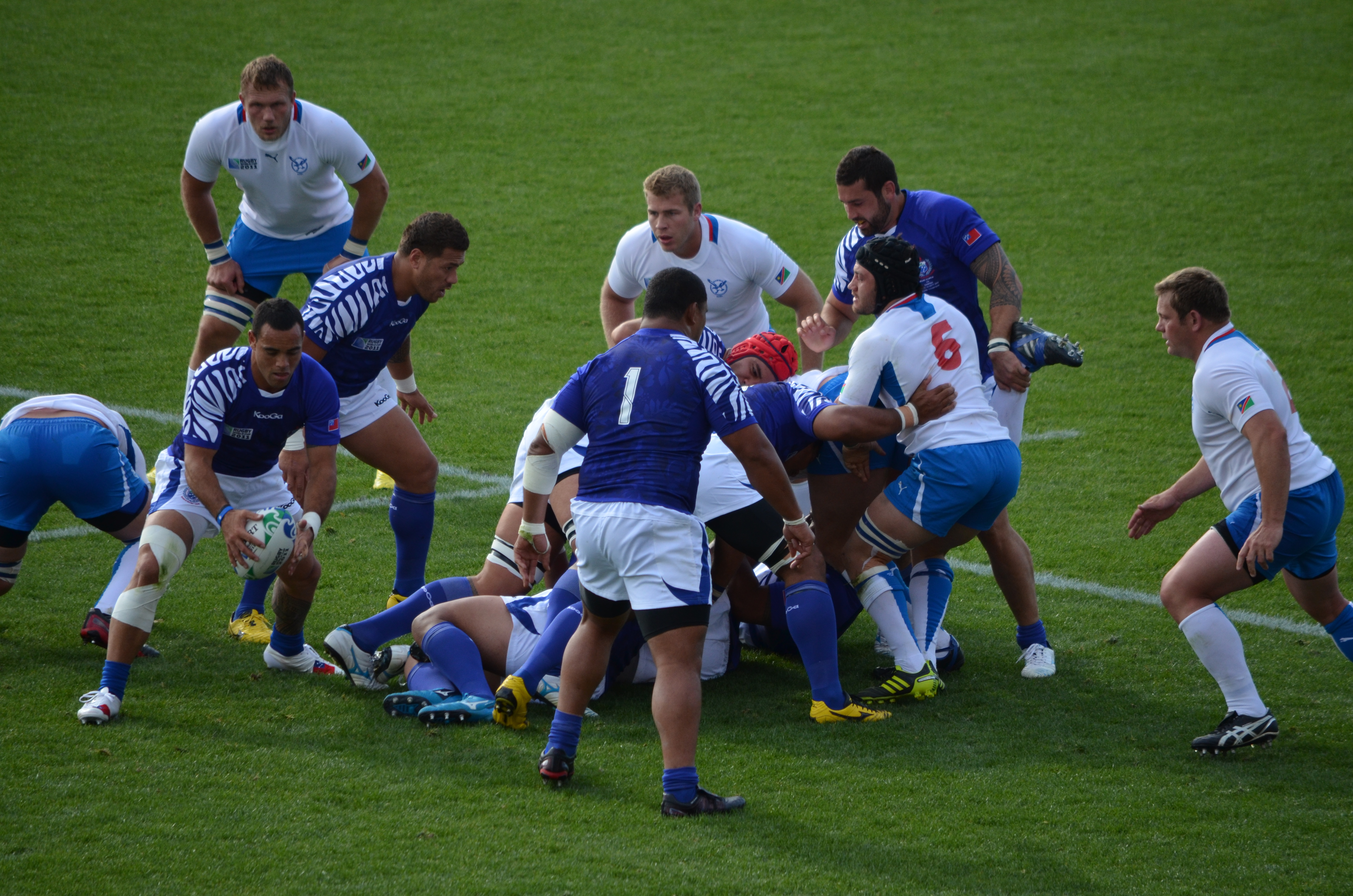 Match between Samoa and Namibia during 2011 Rugby World Cup in New Zealand.